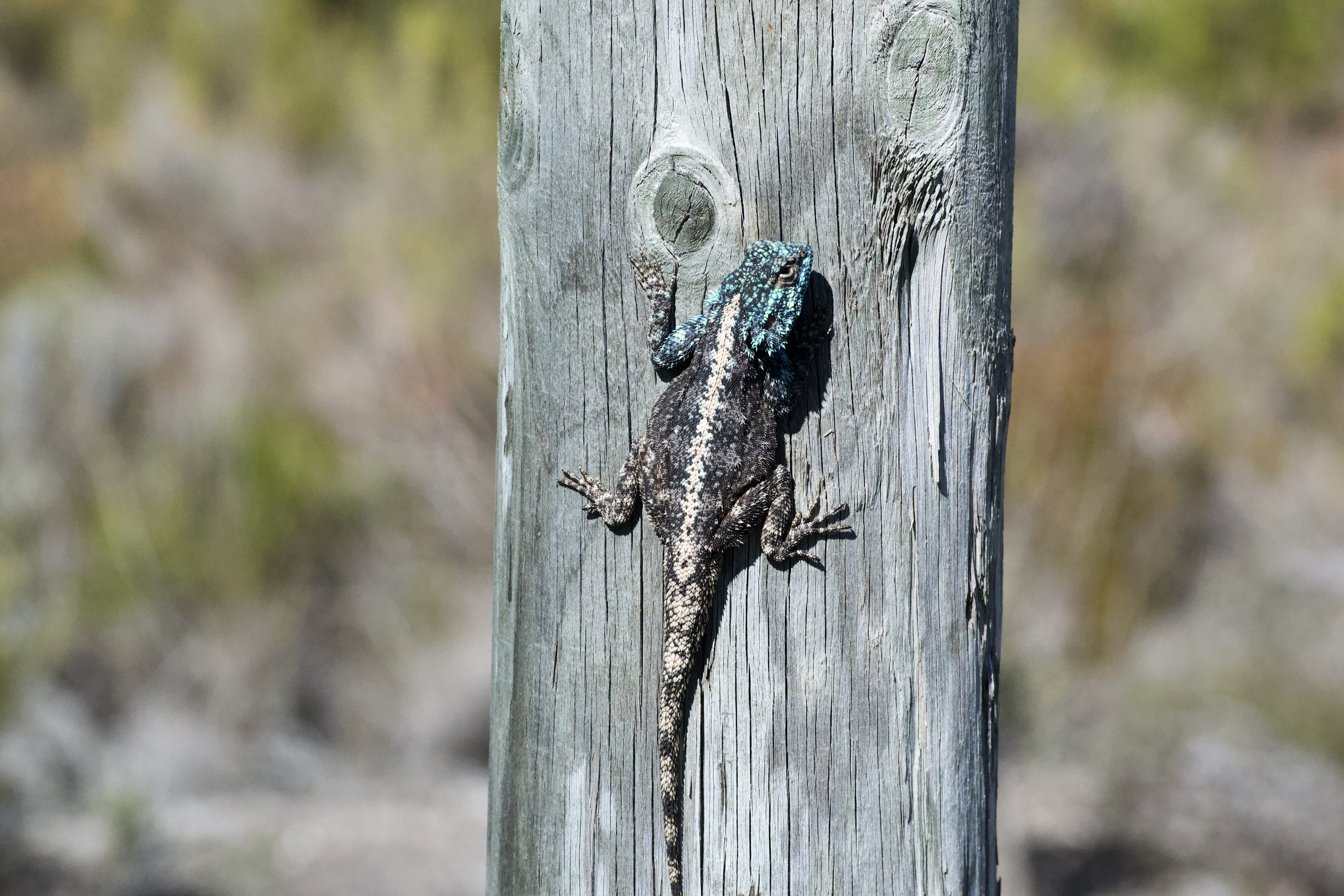 A male Agama atra.